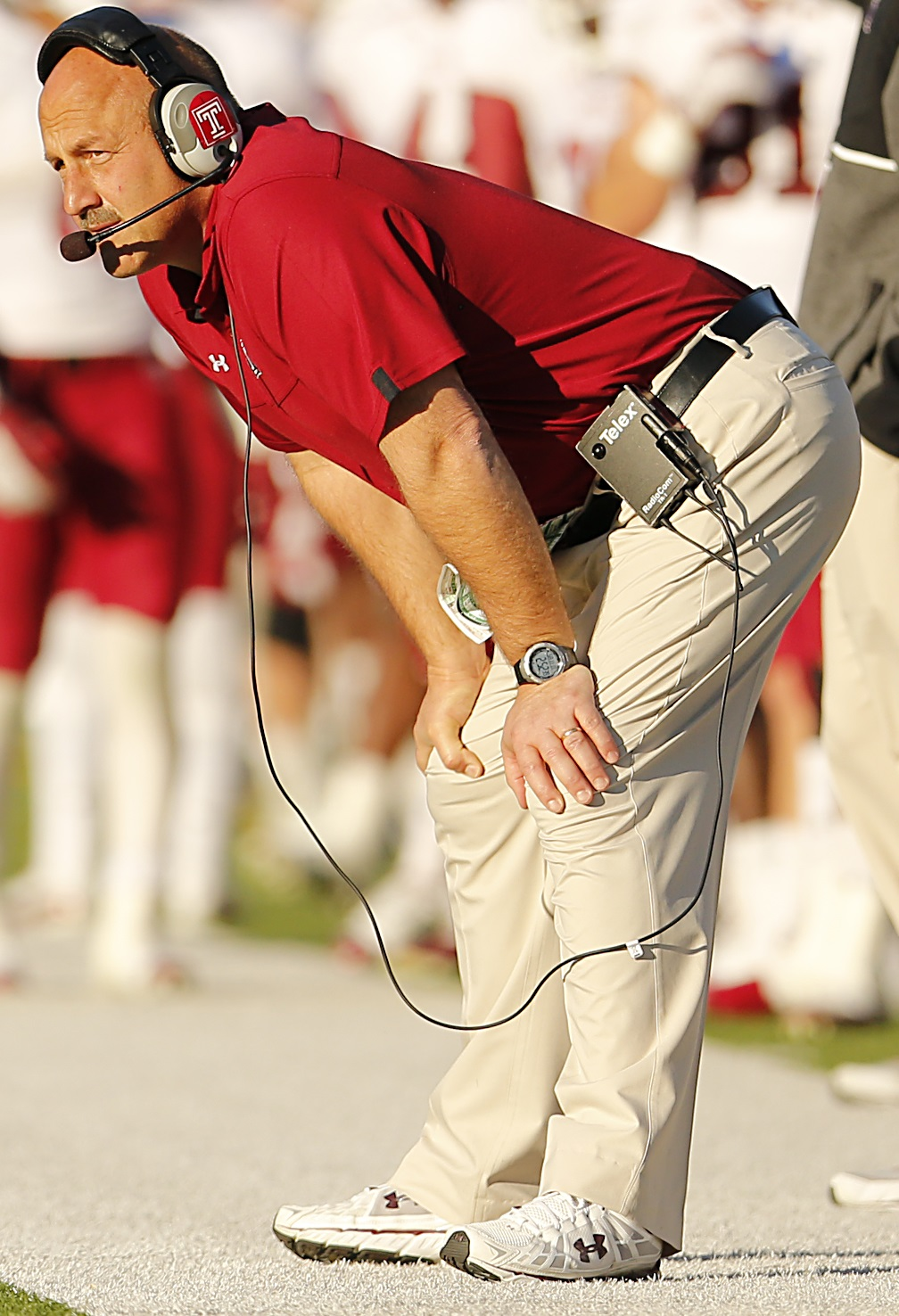 Temple Owls head coach Steve Addazio looks onto the field during the NCAA Division 1football game between Temple Owls and the Army Black Knight, Nov. 17, at Michie Stadium, West Point, New York. Temple defeated Army 63-32.